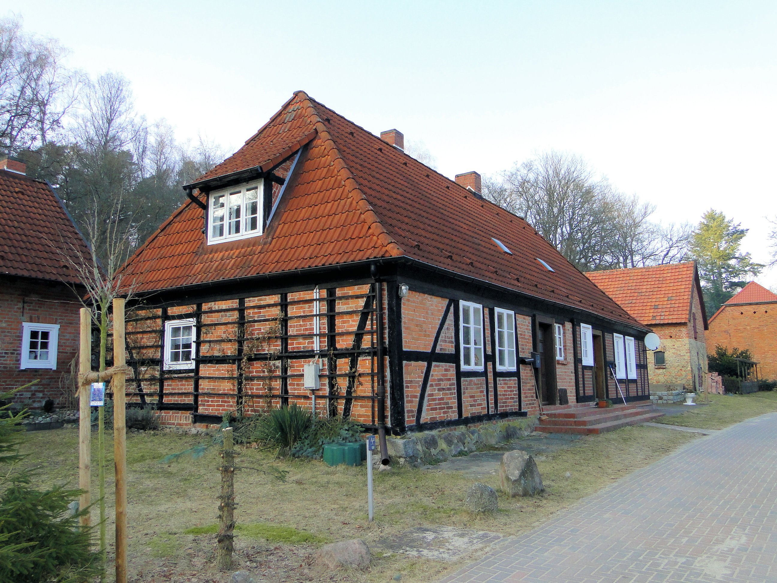 Building in Kleesten, district Parchim, Mecklenburg-Vorpommern, Germany